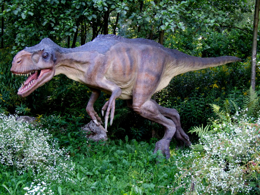 Model of eotyrannus lengi in Bałtów Jurassic Park, Bałtów, Poland